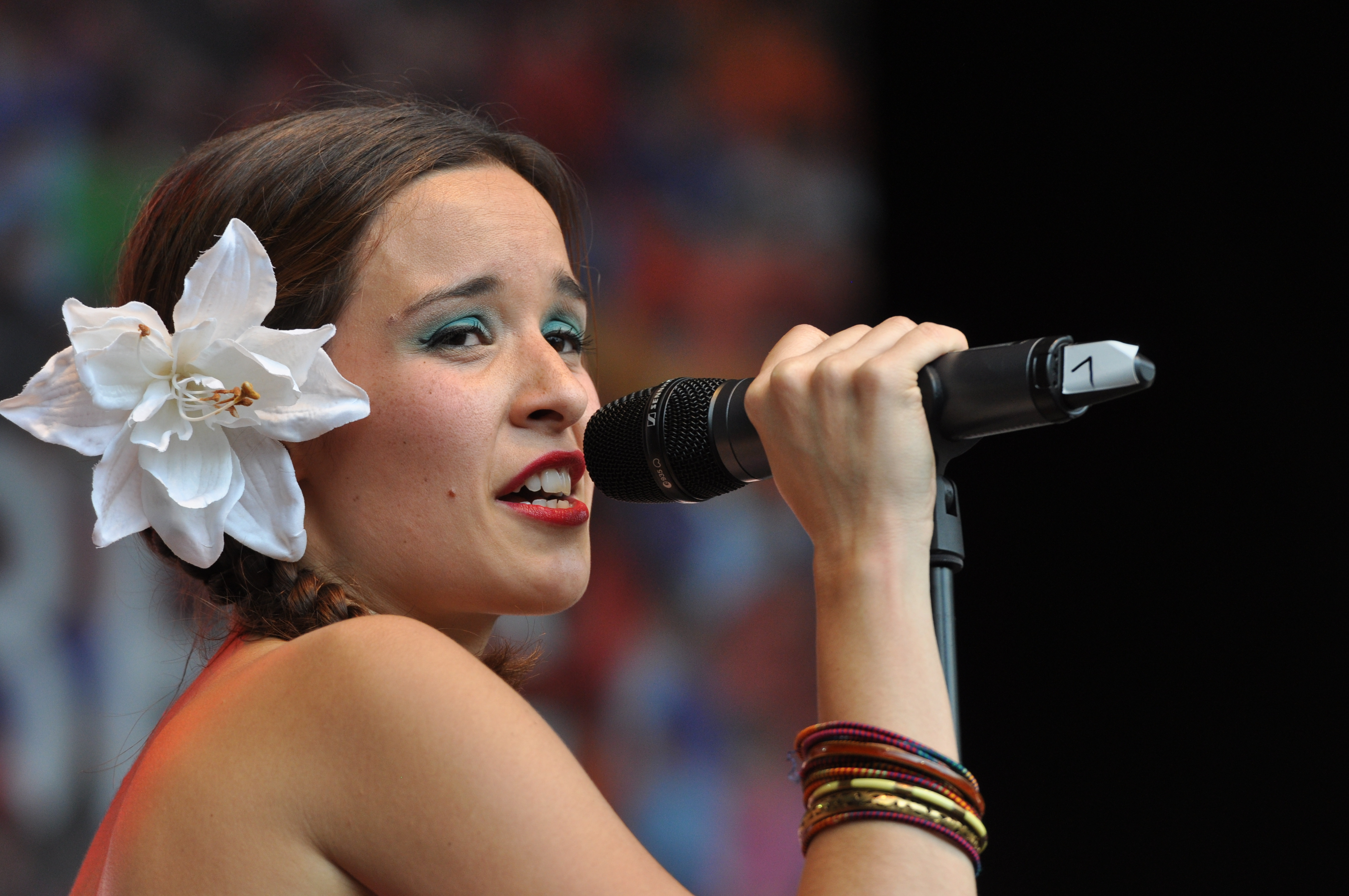 Monsieur Periné (Colombia), appearance at the 39th music festival "Bardentreffen" 2014 in Nuremberg, Germany, Schuett Isle stage